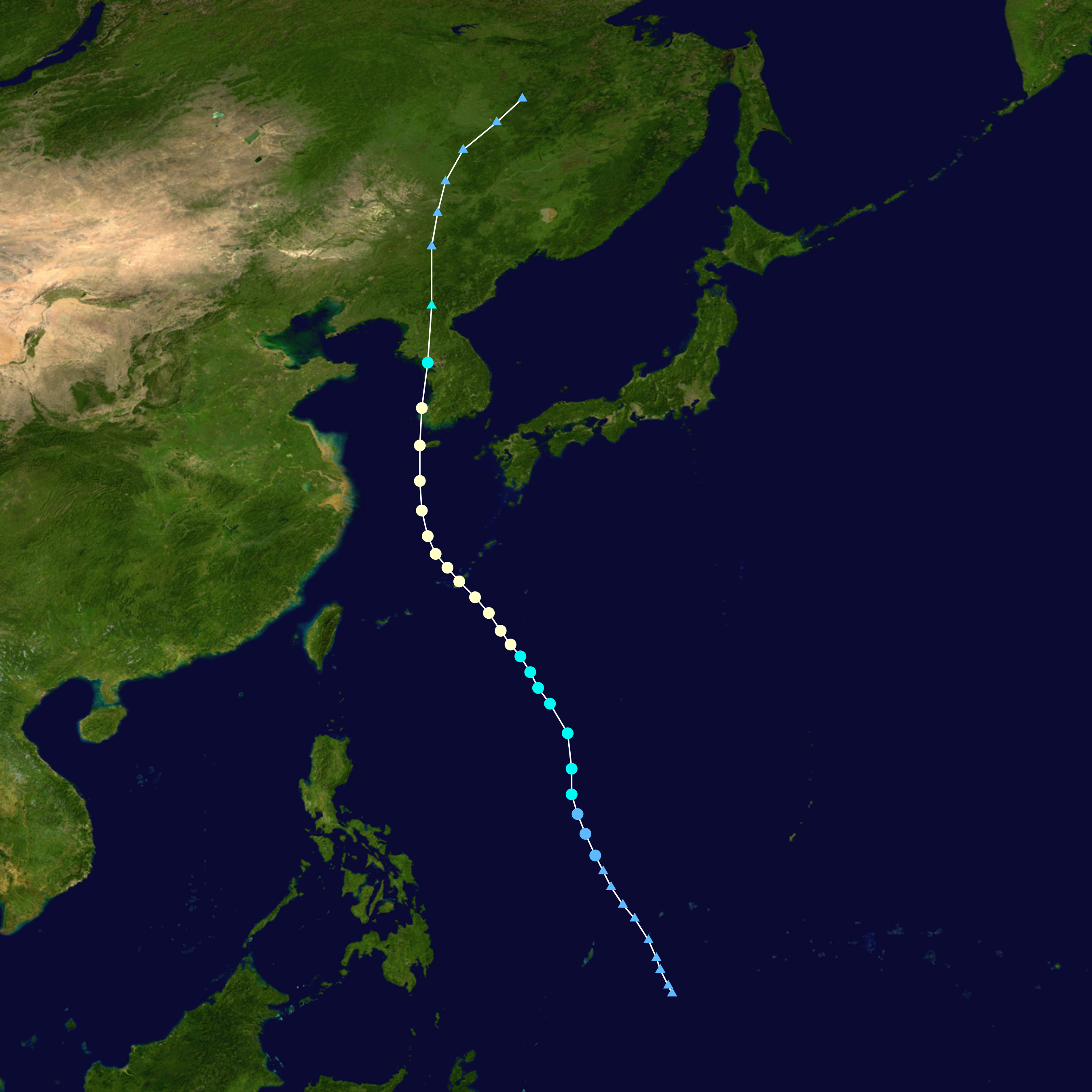 Track map of Typhoon Olga of the 1999 Pacific typhoon season. The points show the location of the storm at 6-hour intervals. The colour represents the storm's maximum sustained wind speeds as classified in the Saffir–Simpson scale (see below), and the shape of the data points represent the nature of the storm, according to the legend below. Saffir–Simpson scale Tropical depression≤38 mph≤62 km/h Category 3111–129 mph178–208 km/h Tropical storm39–73 mph63–118 km/h Category 4130–156 mph209–251 km/h Category 174–95 mph119–153 km/h Category 5≥157 mph≥252 km/h Category 296–110 mph154–177 km/h Unknown Storm type Tropical cyclone Subtropical cyclone Extratropical cyclone / Remnant low / Tropical disturbance / Monsoon depression